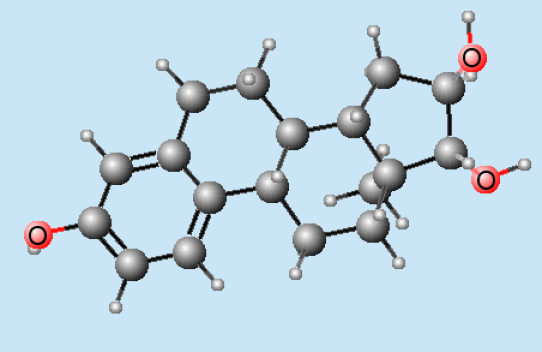 3D Chemical structure of estriol. Made with Corina Software